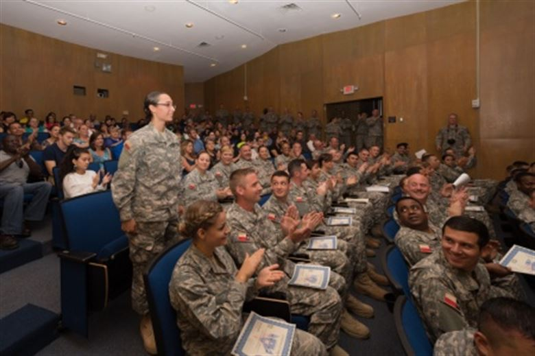 Regional Basic Orientation Training Class 010 recognizes Pvt. Angeline Sanchez, 2nd Battalion, 2nd Regiment, Texas State Guard, as the honor graduate at a ceremony held in Austin, Texas, Sept. 20, 2015. RBOT is held twice a year in different areas across the state to teach new State Guardsmen military customs, basic first aid and CPR, drill and ceremony, land navigation and radio communication skills. The training is broken up into two phases, which take place during monthly drill. U.S. Army National Guard photo by Sgt. 1st Class Malcolm McClendon